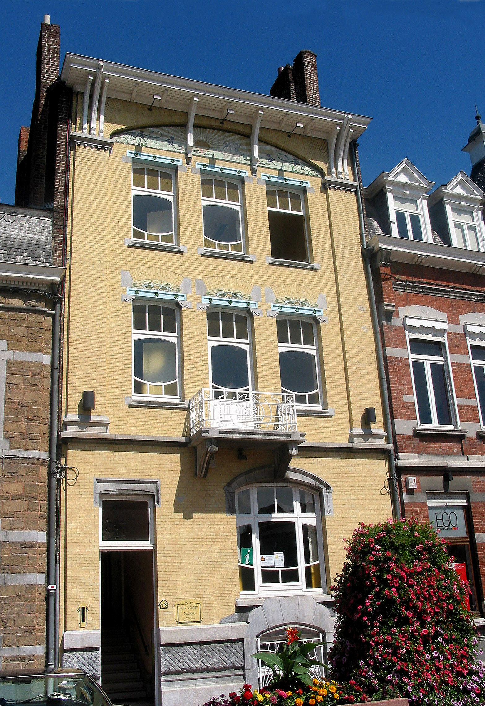 Andenne (Belgium), tourism information house ("Modern Art" style - built in 1907 by the architect Achille Simon).